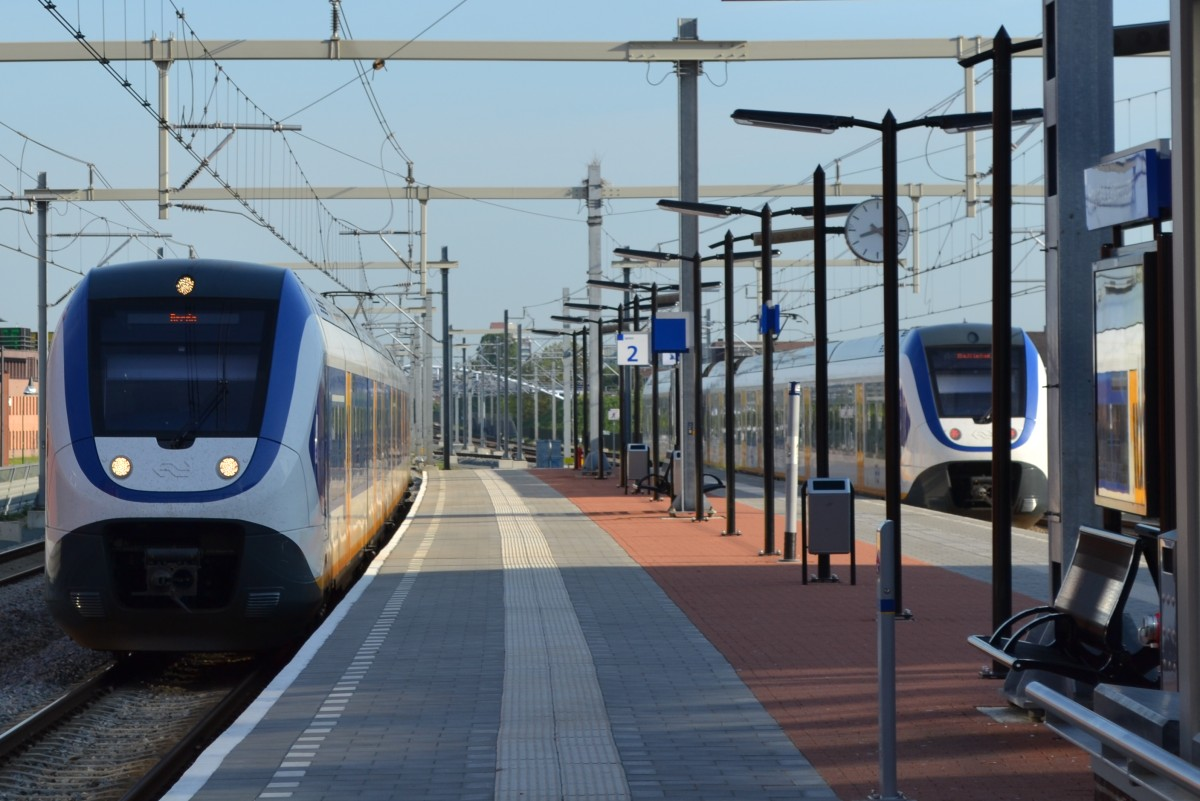 View on platform of Houten Castellum railway station, showing a NS Sprinter Lighttrain leaving for station Utrecht Centraal and one arriving for station Breda